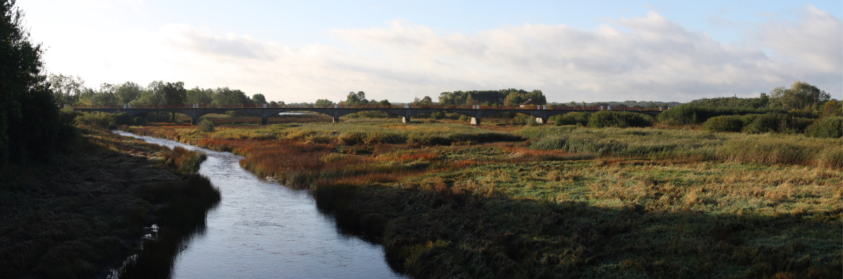 The Kasari old bridge, Lääne County, Estonia